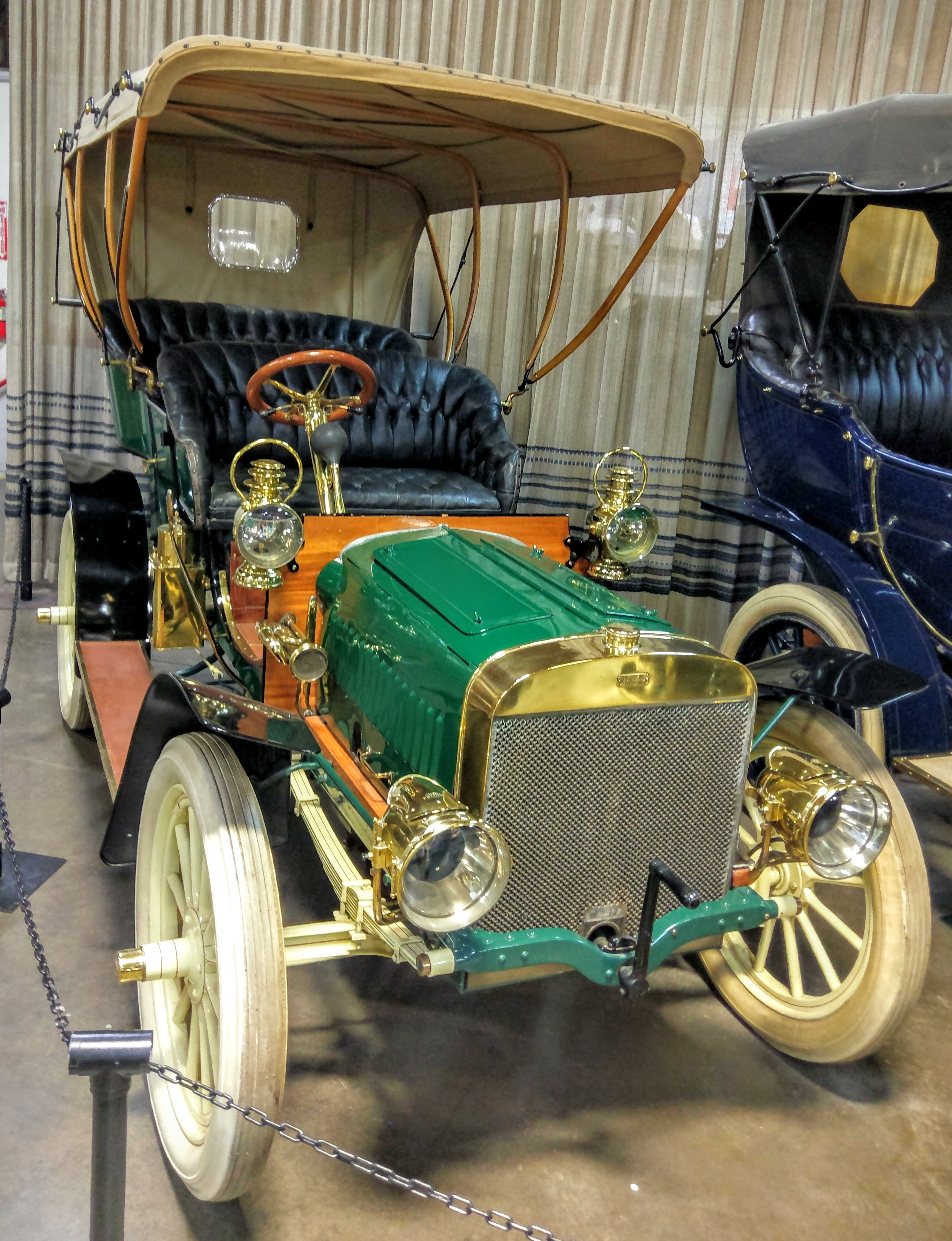 On display at the California Automobile Museum. Photo by Jim Heaphy.